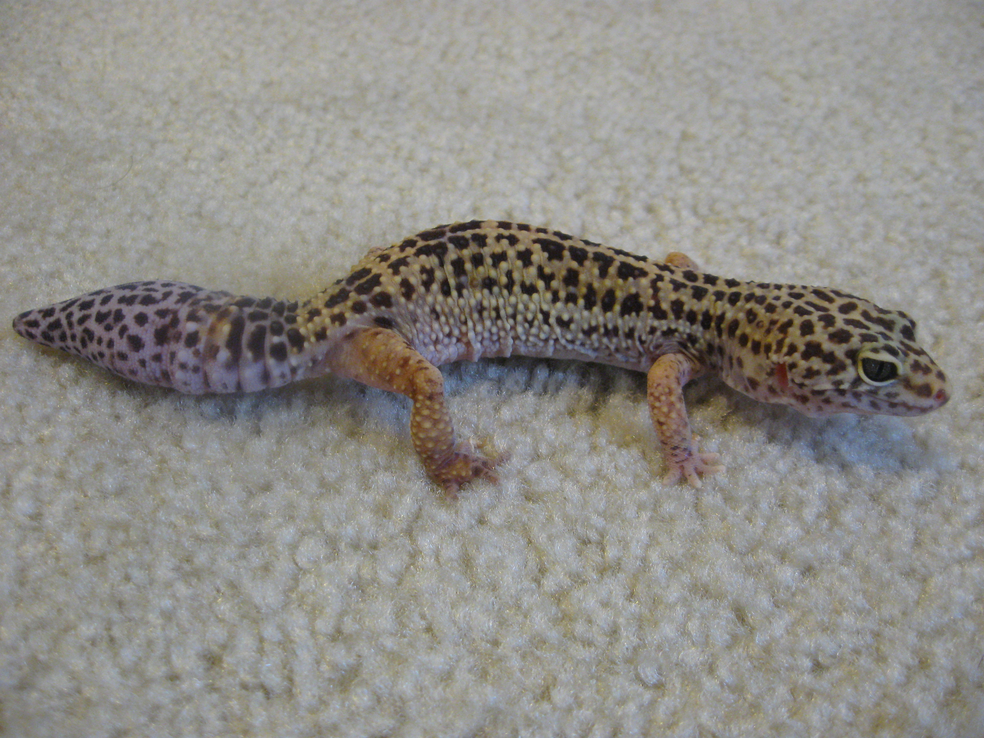 A Leopard Gecko with a tail that fell off and grew back.